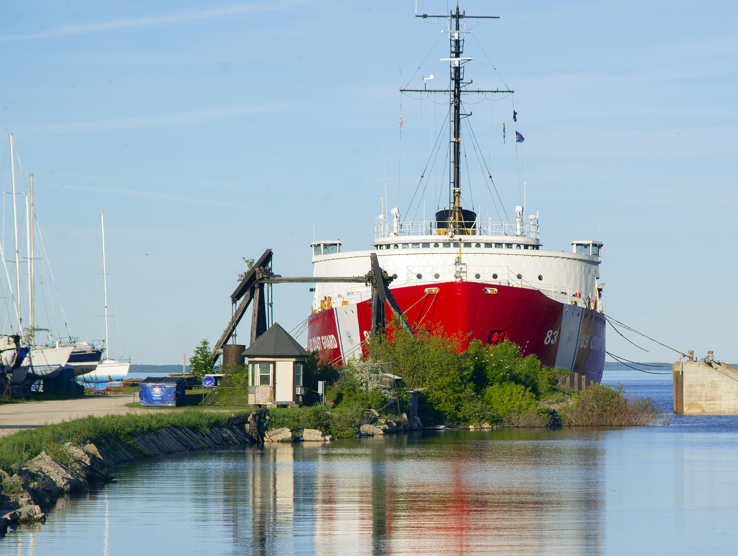 Masts and antennae, USCGC Mackinaw (WAGB-83)